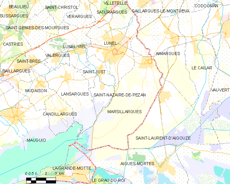 Map commune FR insee code 34151.png - Marsillargues